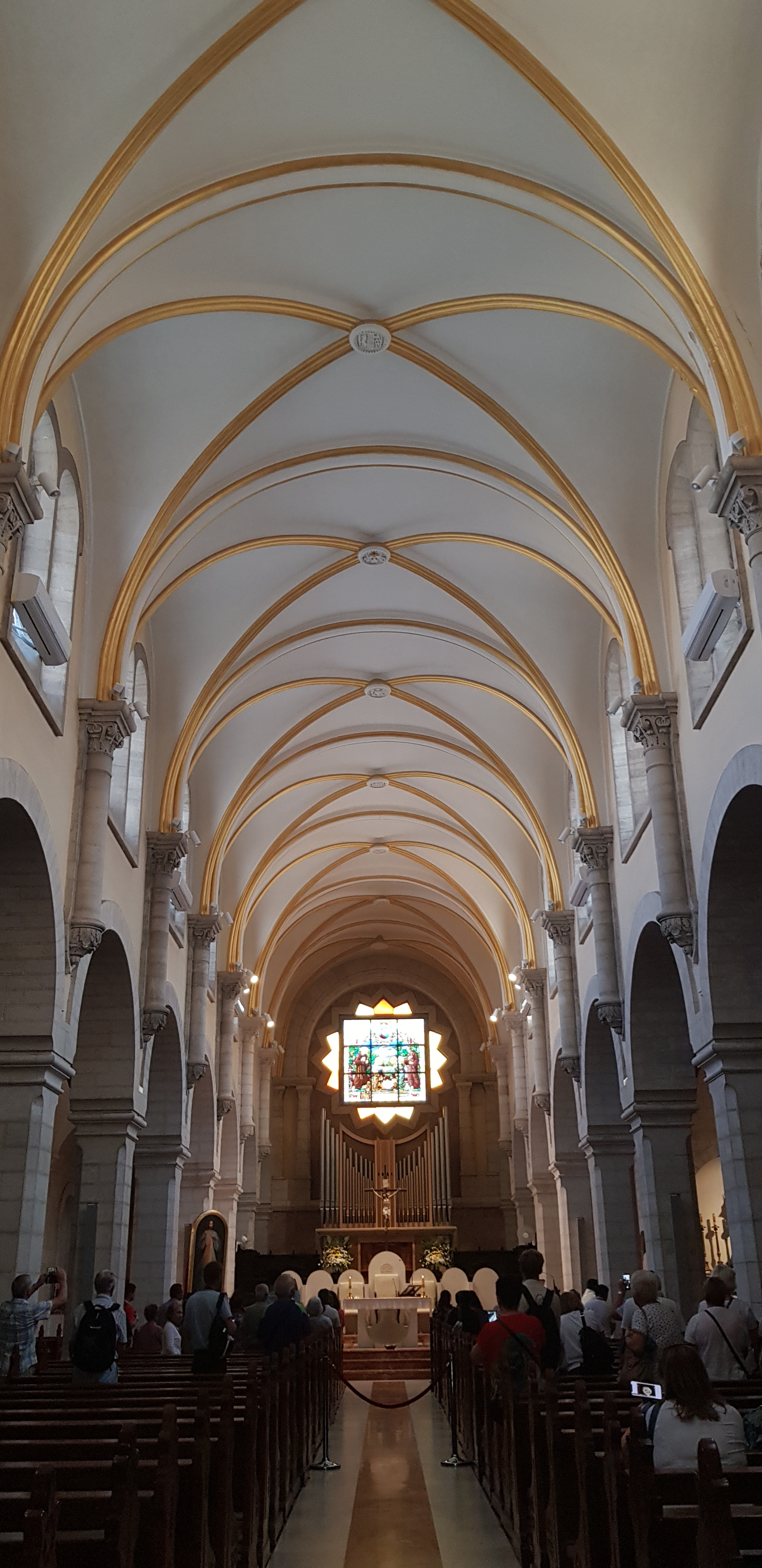 Church of Saint Catherine of Alexandria at the Basilica of the Nativity in Bethlehem, West Bank